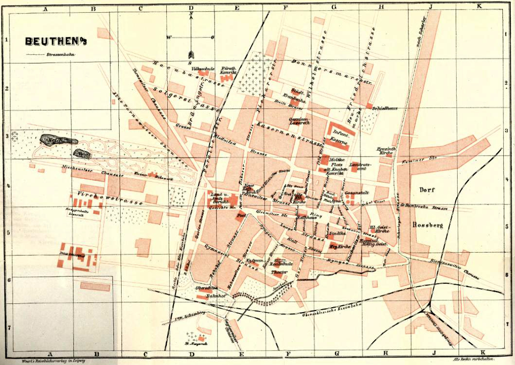 Map of Beuthen O.S.